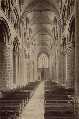 The nave of Durham Cathedral by James Valentine, c.1890.